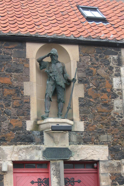 Alexander Selkirk memorial